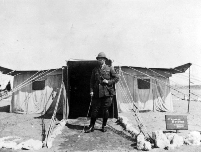 Colonel John Robinson Royston, a South African officer who commanded the Australian 12th LHR and 3rd LH Bde during the Sinai and Palestine campaign of World War I